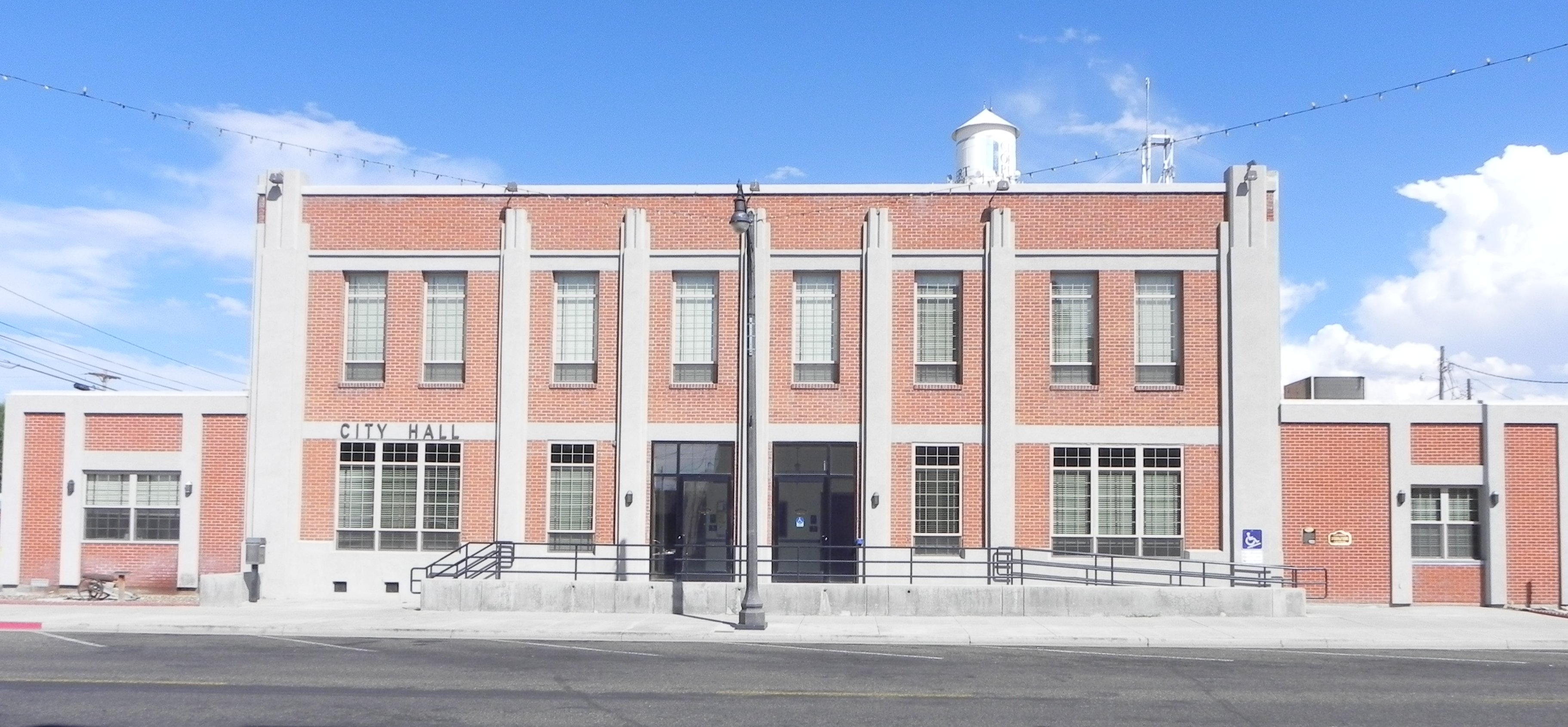 Rupert Town Square Historic District